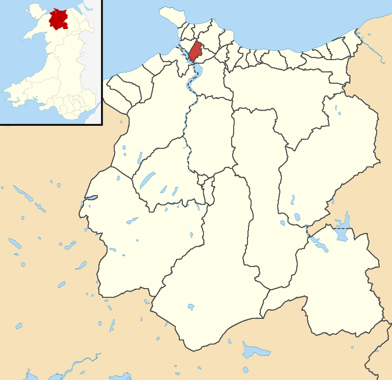 Location map of Marl electoral ward in Conwy County Borough, Wales, representing part of Llandudno Junction.